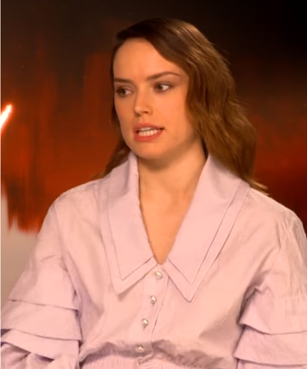 John Boyega, Daisy Ridley, Mark Hamill and the cast of Star Wars: The Last Jedi talk funniest moments together behind the scenes of the much anticipated eighth movie. Turns out John Boyega hates porgs?! Say it isn’t so!